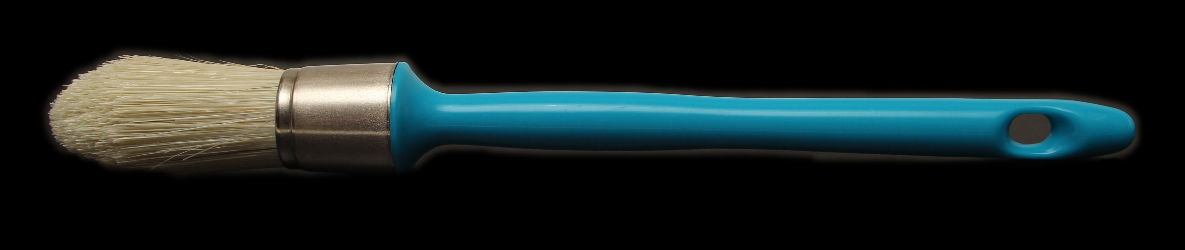 Brosse à rechampir.